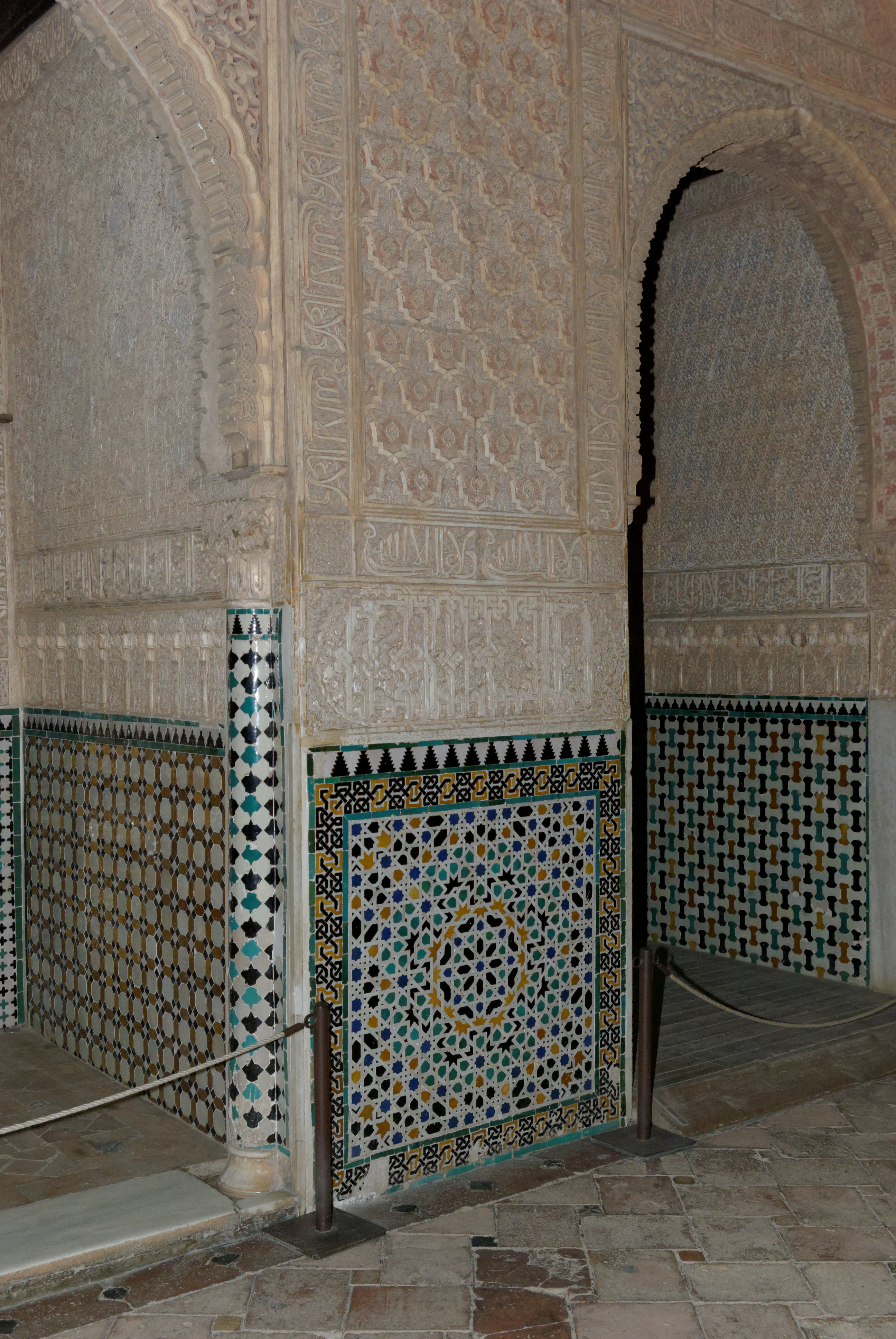 Spain, Granada, Alhambra, Salón de embajadores